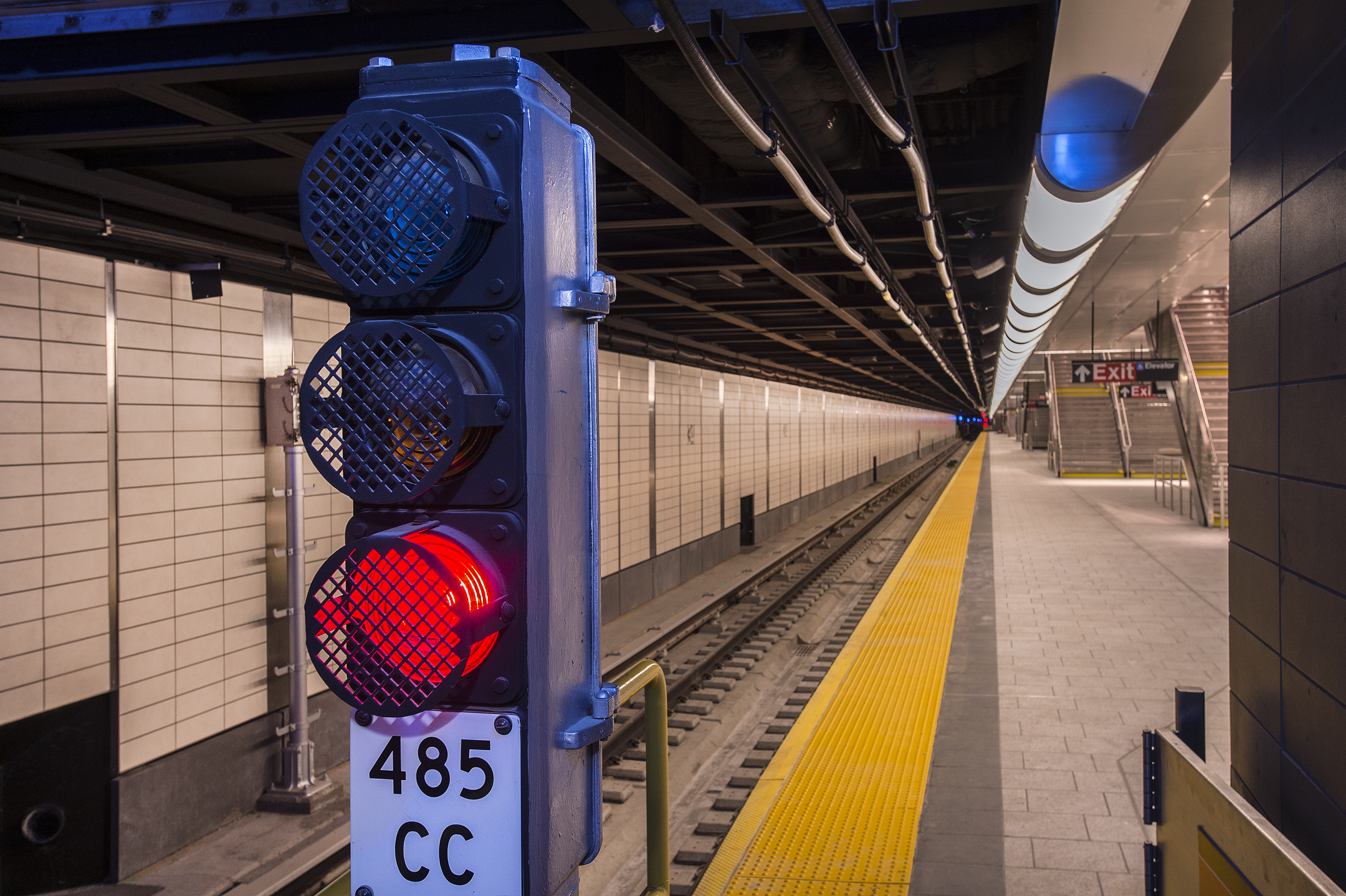 34 St-Hudson Yards Station